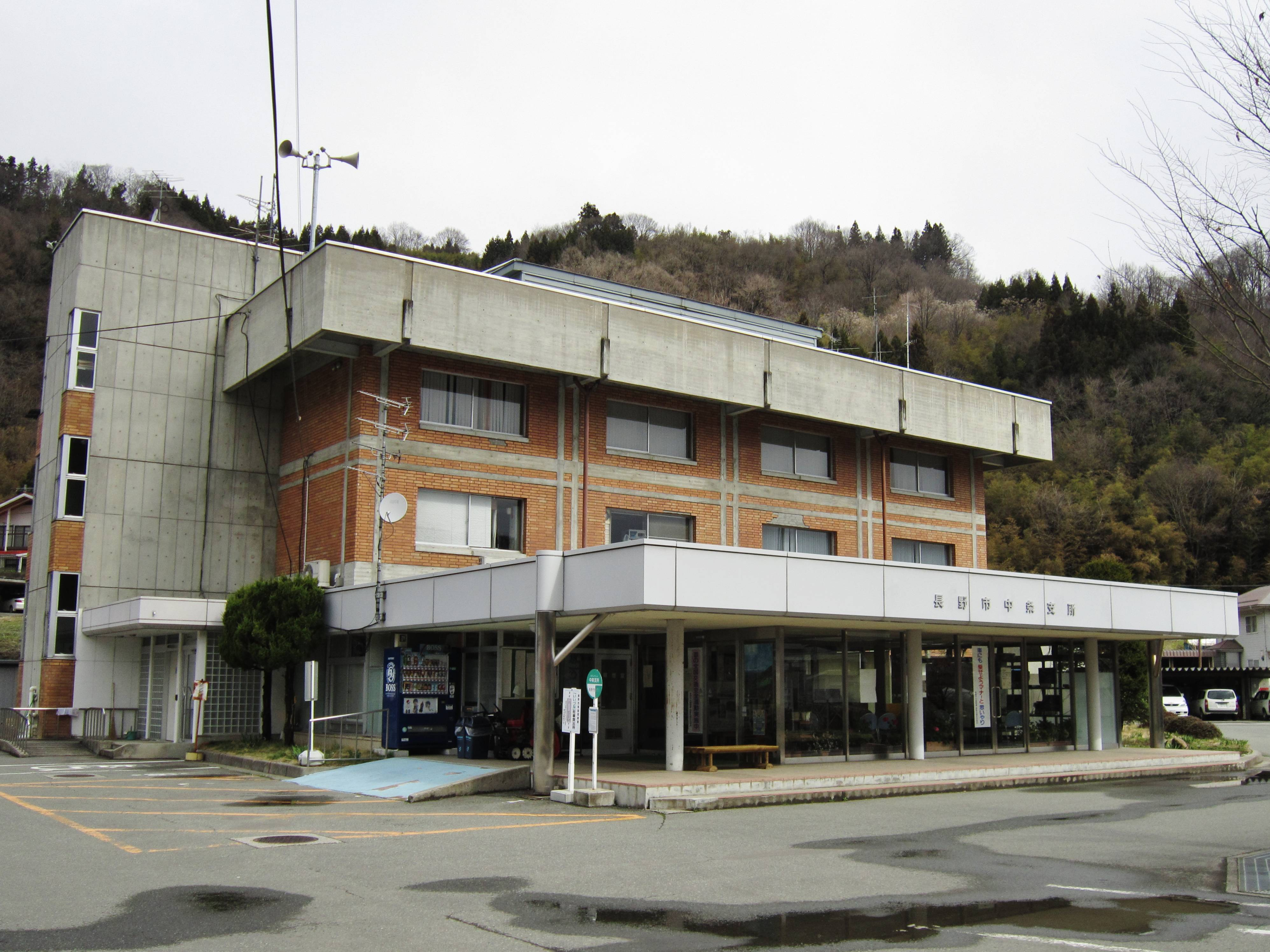 Nagano city Nakajō branch office.